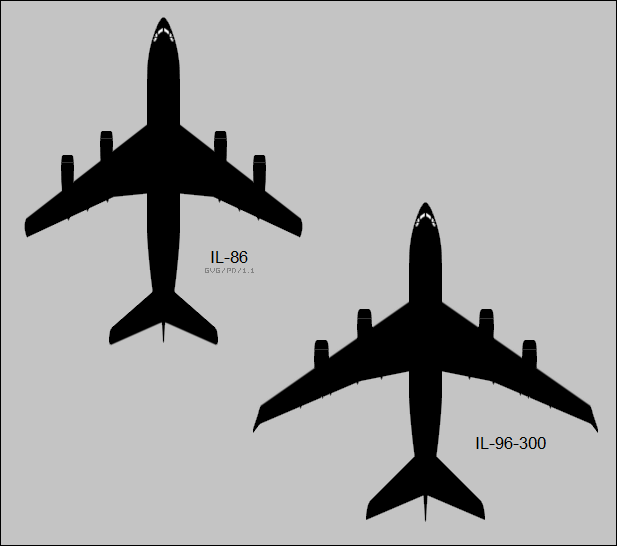 Plan-view silhouettes of the Ilyushin Il-86 and Il-96-300